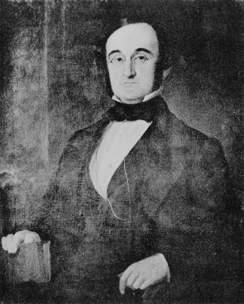 72rd Governor of South Carolina